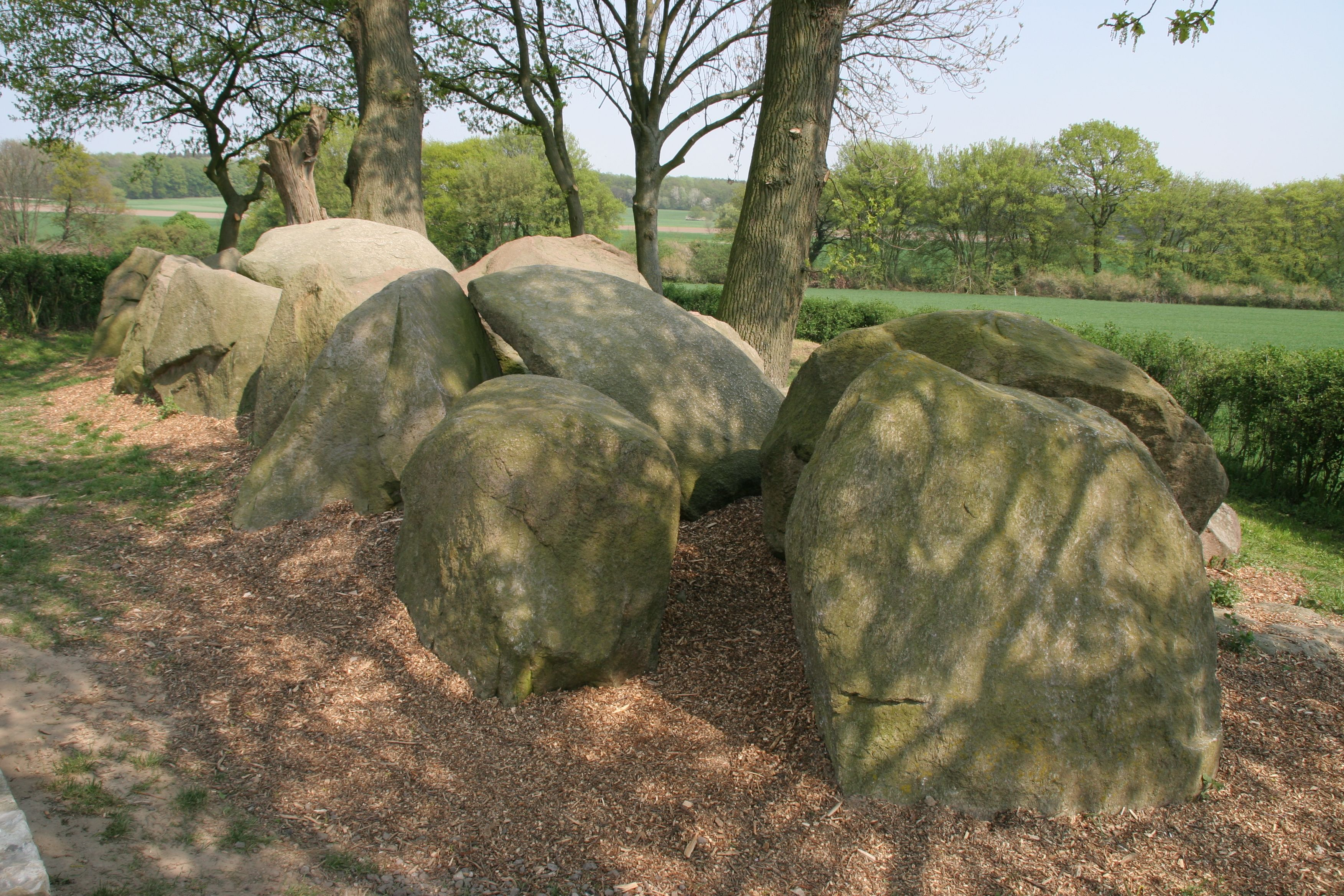 Jeggen: megalithic chambered tomb "Jeggener Steine"